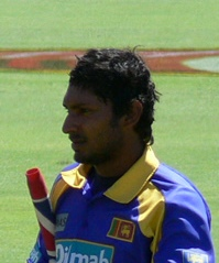 Portrait picture of Sri Lankan cricketer Kumar Sangakkara, cropped from File:Sangakkara.jpg.